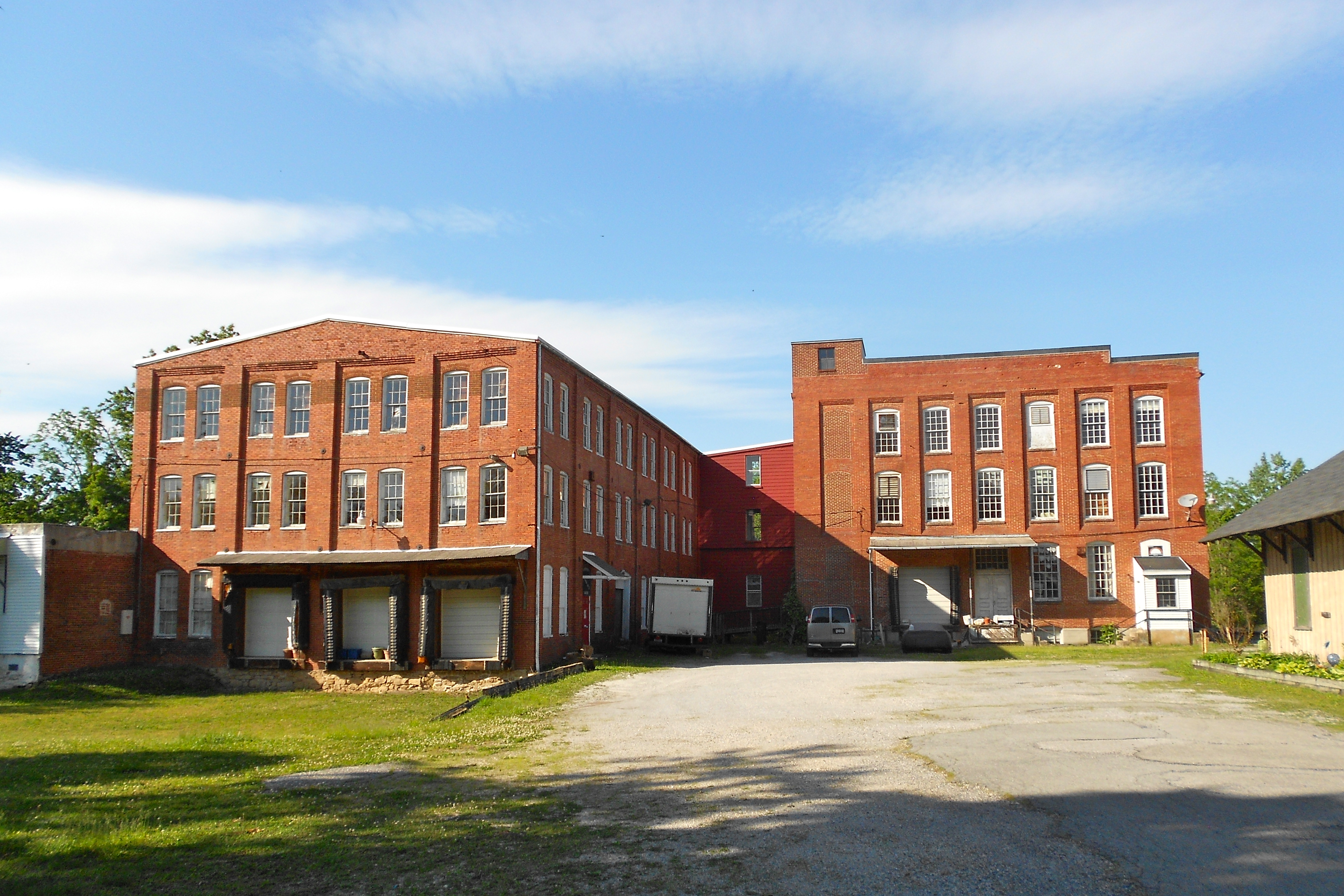 Old factories or warehouses by the depot in Mt. Wolf, Pennsylvania